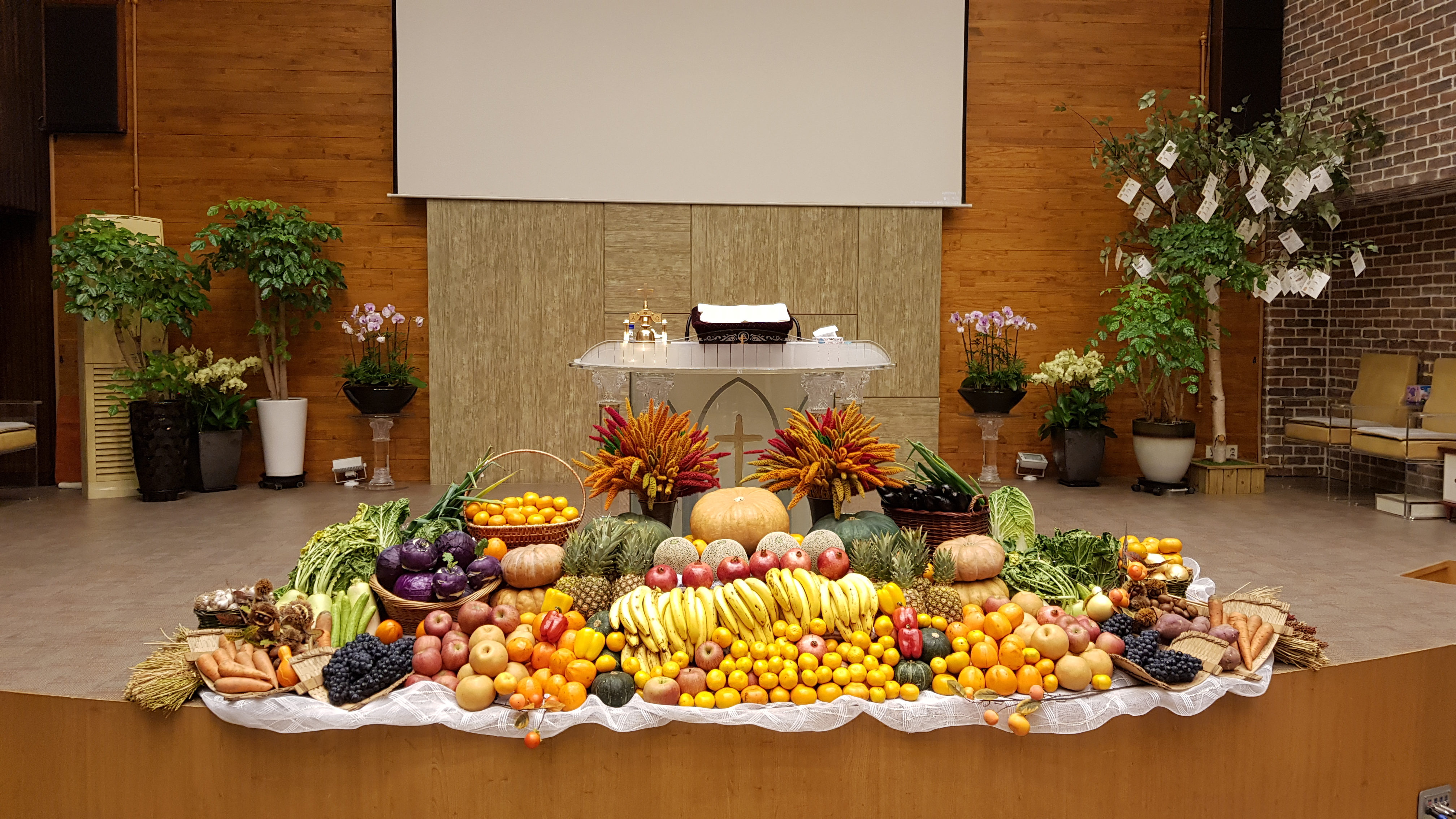 Thanksgiving Day in the Church in Swon, S. Korea